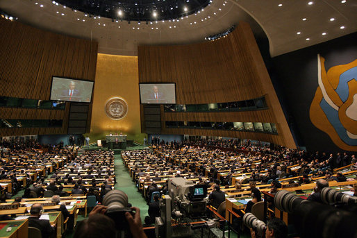 The opening day of the 61st annual UN General Assembly convened to face issues such as the Mid-east peace process, Iran's nuclear ambitions, and UN peacekeeper presence in Darfur.